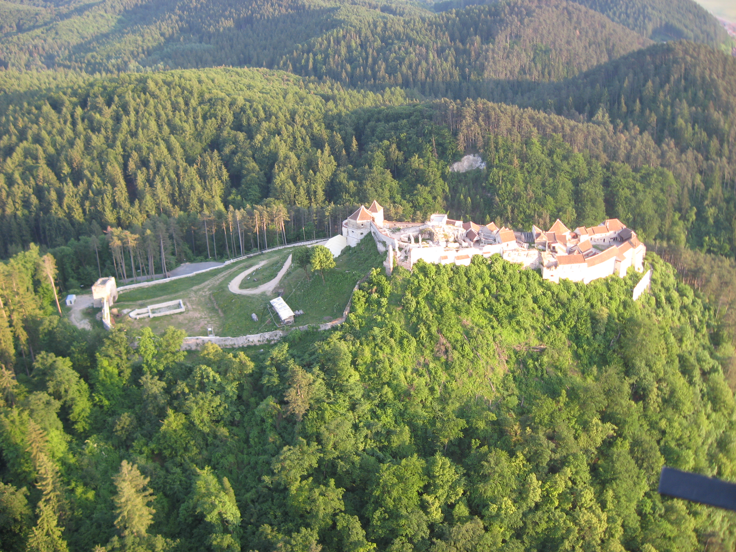 Râşnov Castle, also known as Râşnov Citadel